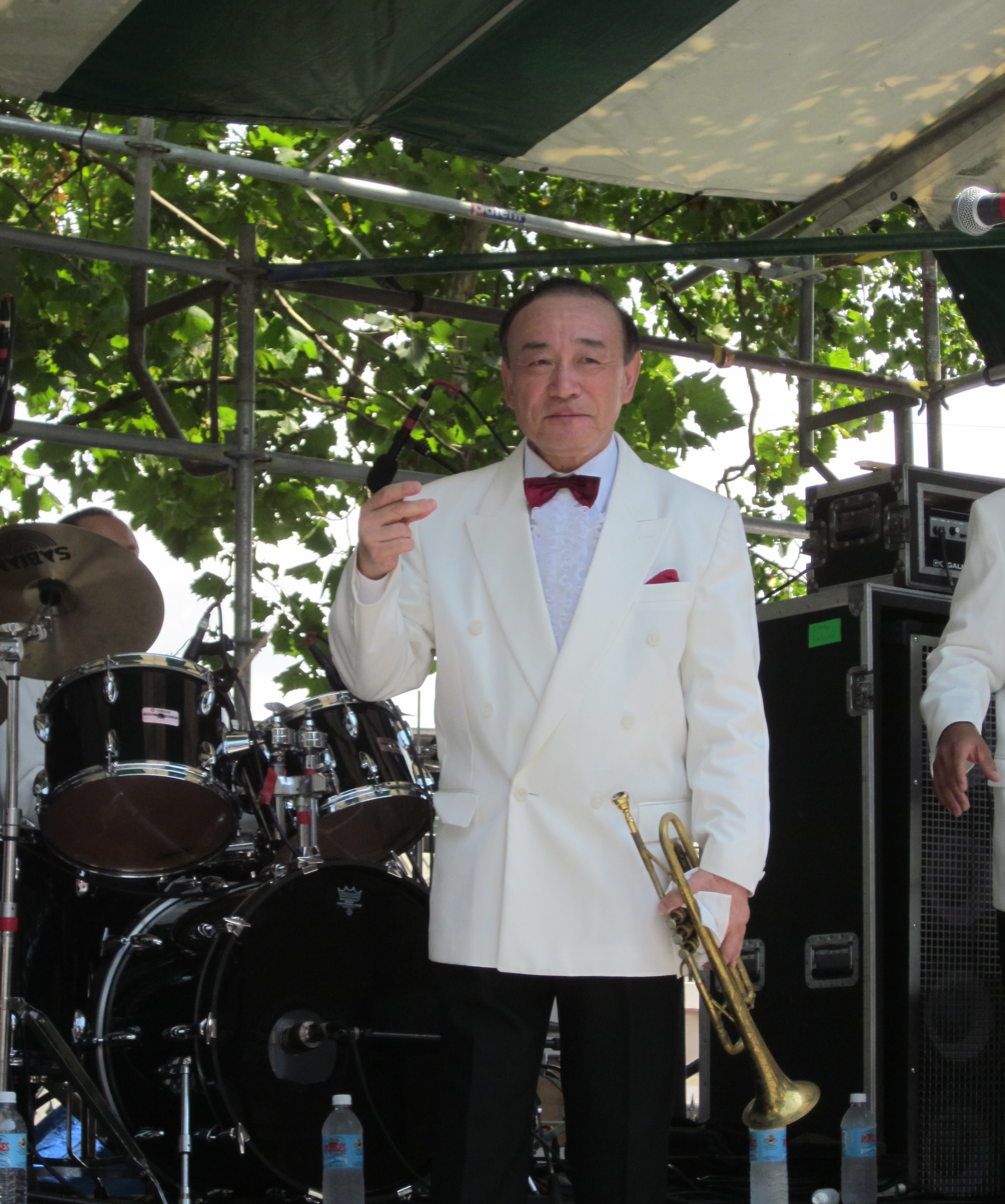 Satchmo SummerFest 2010, French Quarter, New Orleans. Yoshio Toyama.